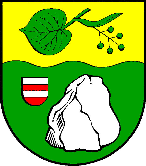 Coat of arms of the municipality Lindau in Schleswig-Holstein, Germany.